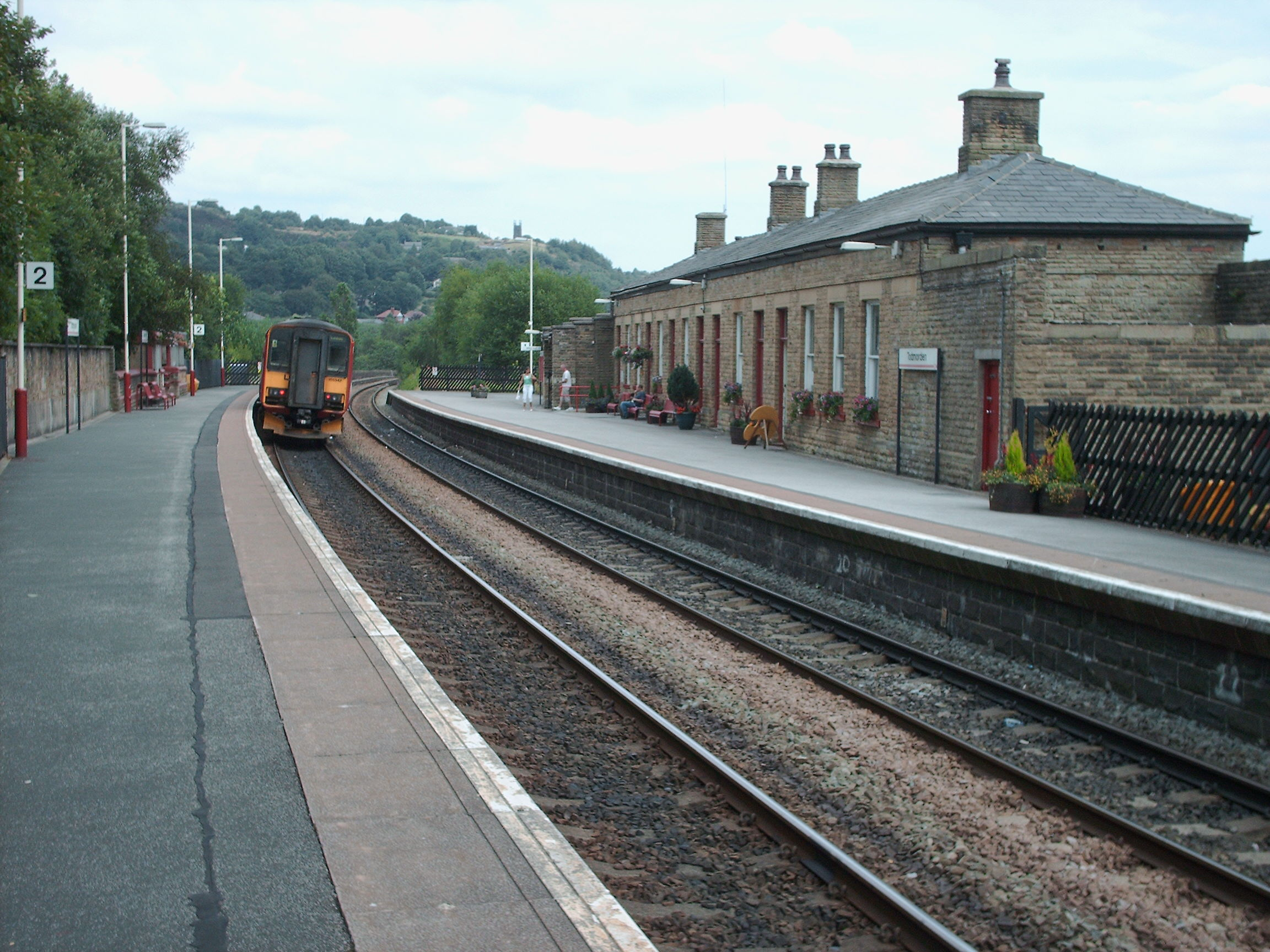 Todmorden railway station, West Yorkshire, England. Platform 2. Diesel Multiple Unit 155342 departing.